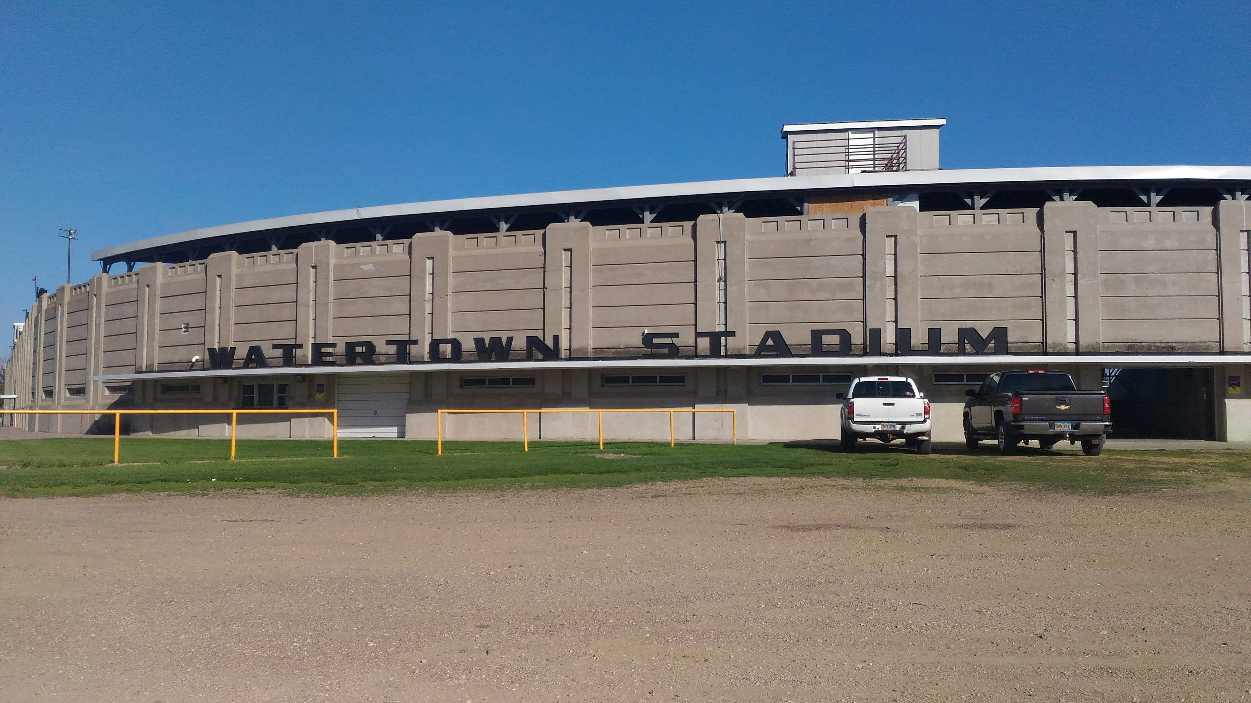 A photograph of the exterior of Watertown Stadium in Watertown, South Dakota. Taken 10 May 2017 with a mobile phone.